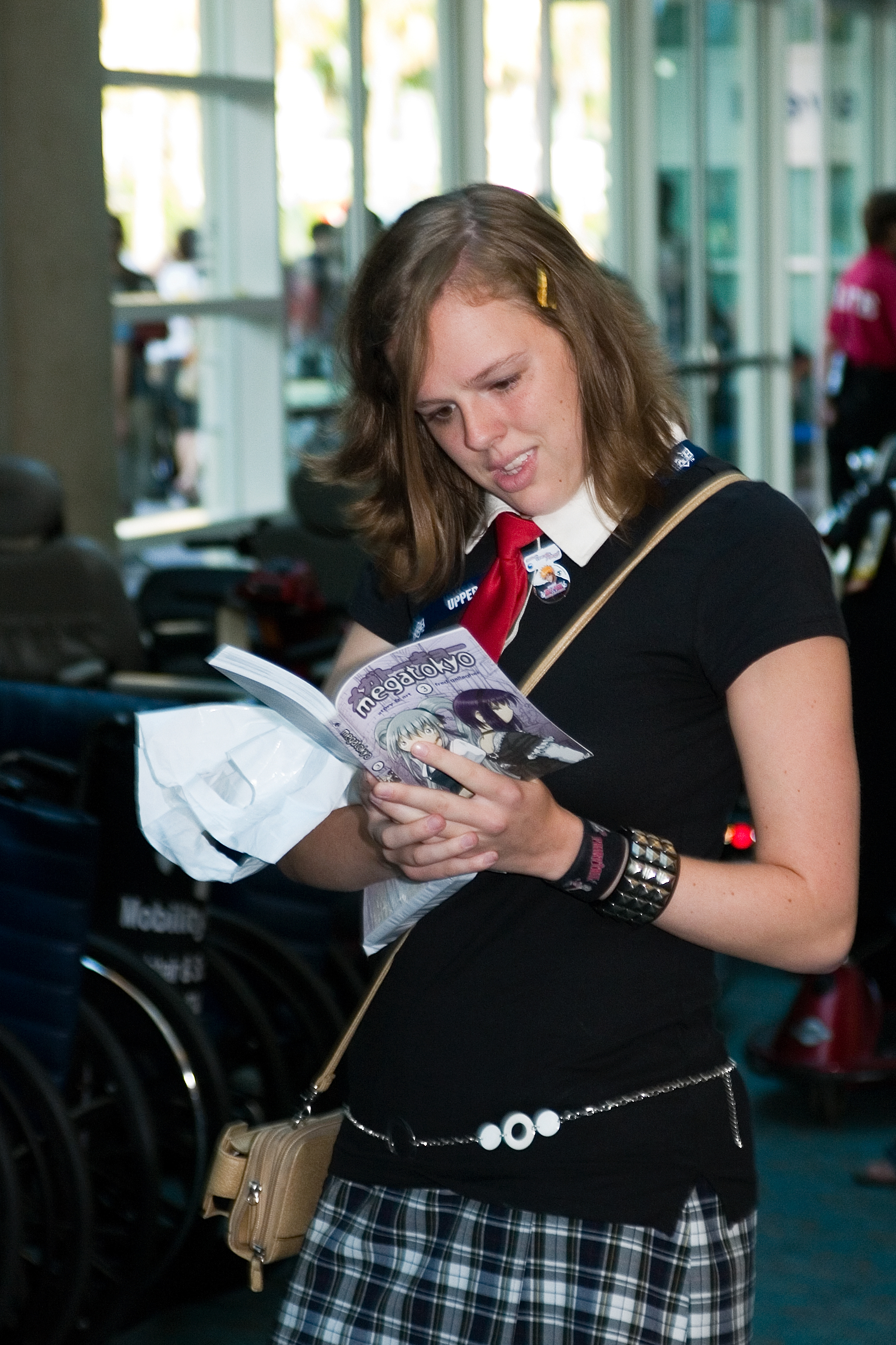 Someone reading a print version of the third volume of Fred Gallagher and Rodney Caston's Megatokyo, on the first day of San Diego Comic-Con 2008.